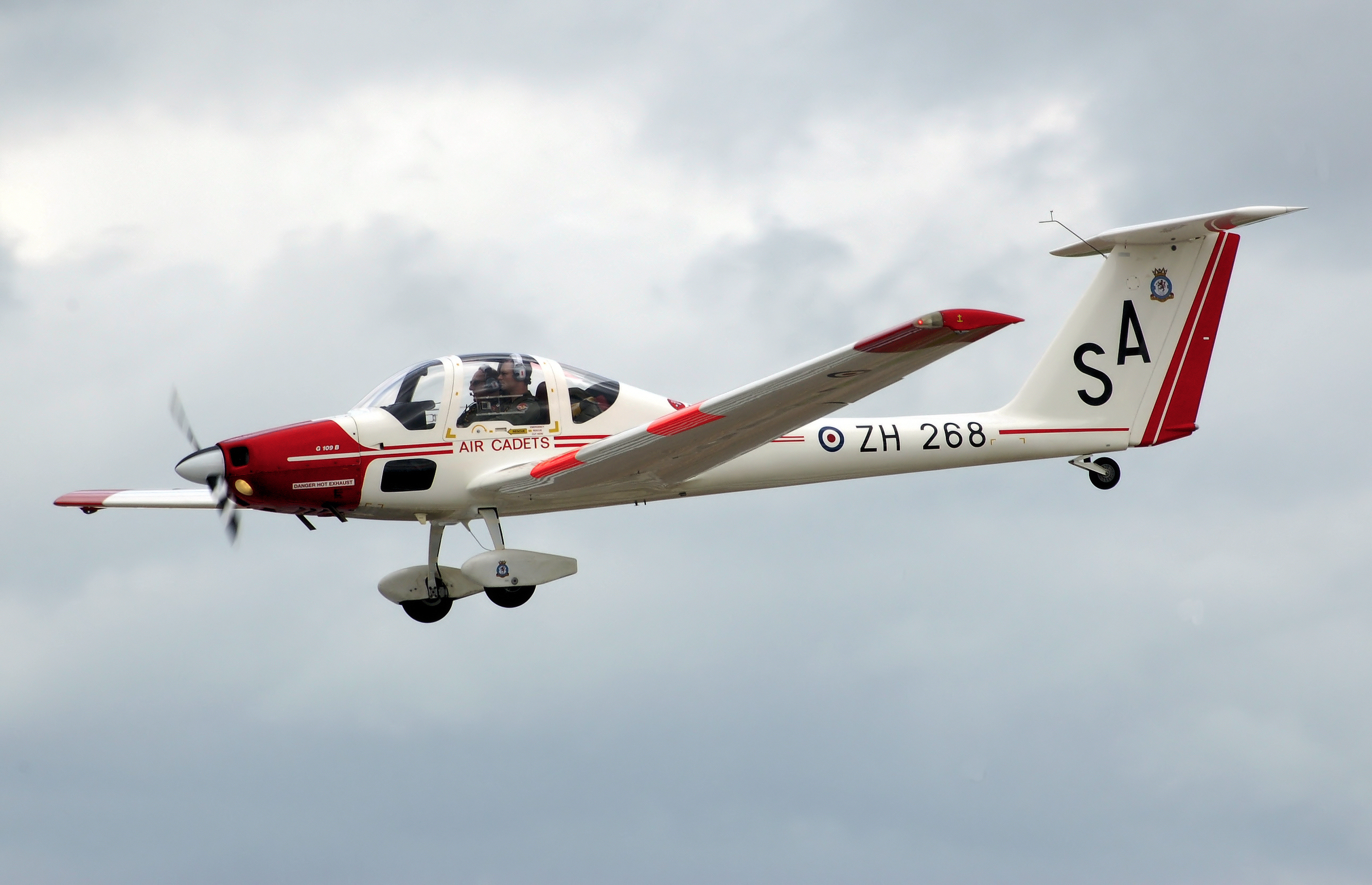 Royal Air Force Grob G109B powered glider (known as the Vigilant T1 in RAF service) lands at the 2008 Royal International Air Tattoo, RAF Fairford, Gloucestershire, England. Taken at RIAT Fairford on the Thursday before the weekend show days. Later, both show days (Saturday and Sunday) were cancelled because of waterlogged car parks. Photographed by Adrian Pingstone in July 2008 and placed in the public domain.